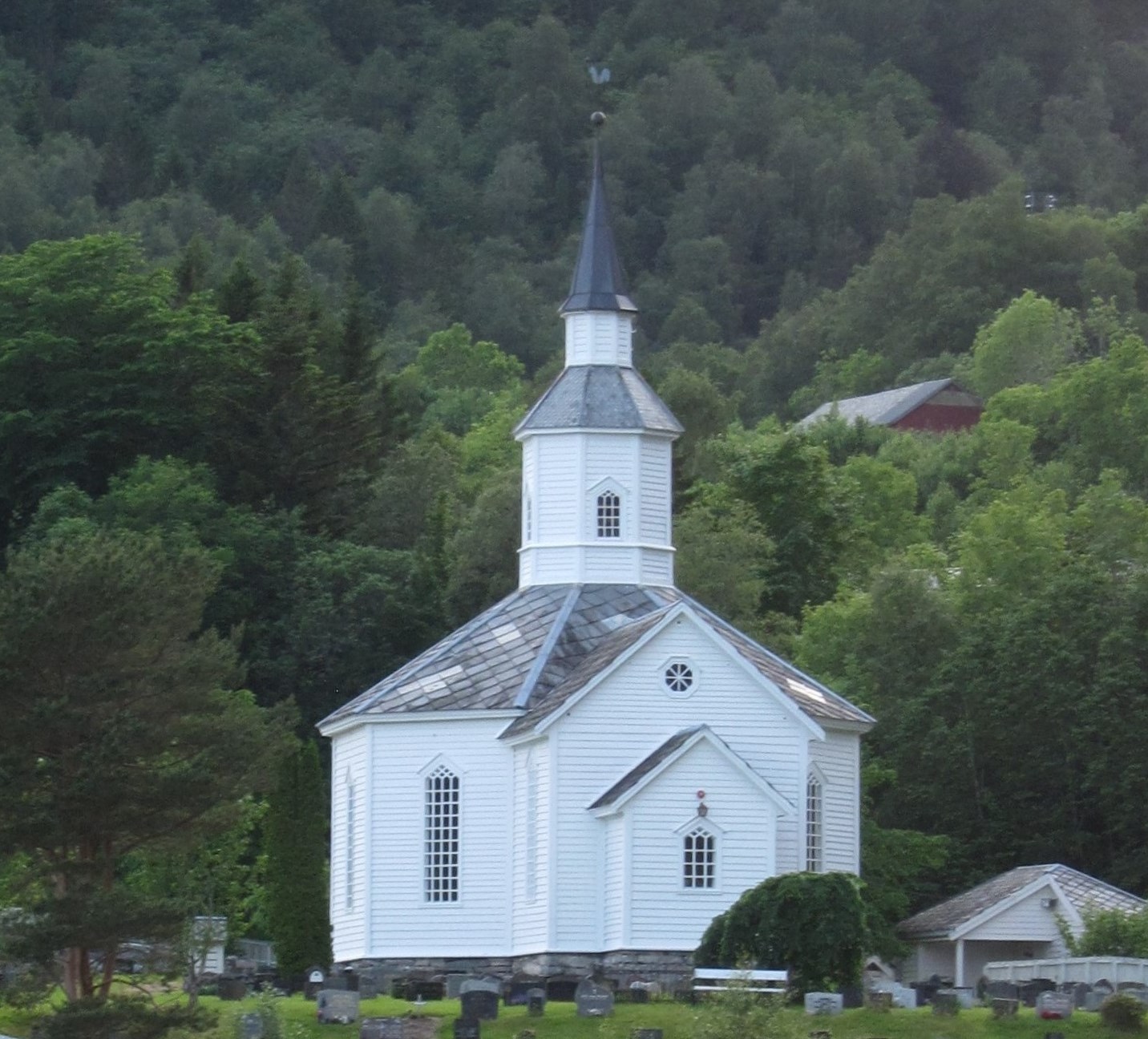 Lavik church seen from the ferry, Lavik in Sogn og Fjordane, Norway. Cropped.